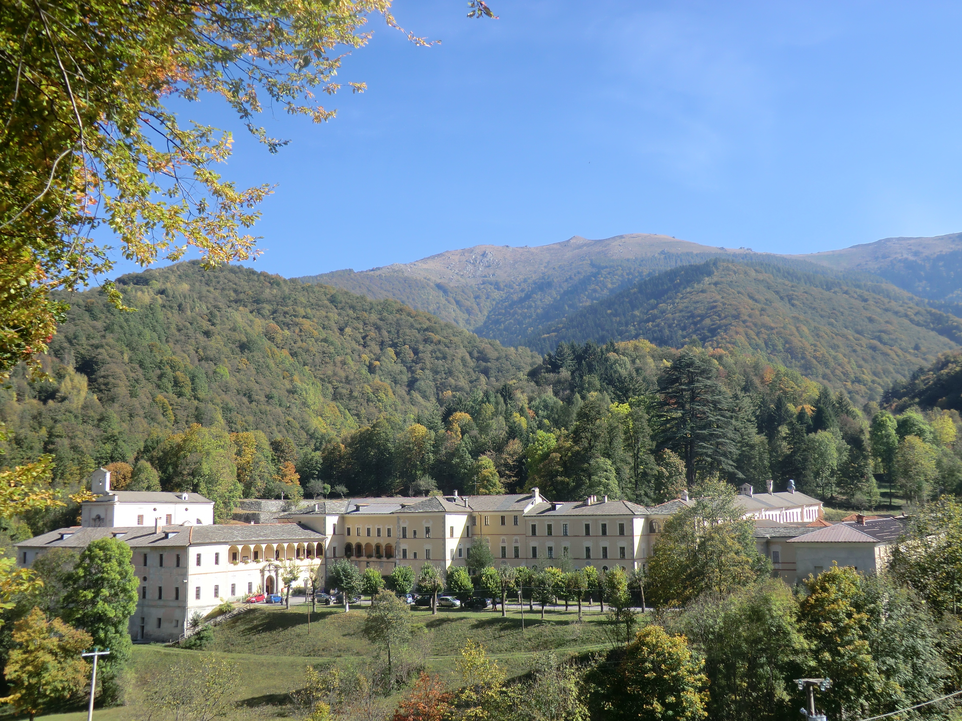 Chartreuse of Pesio Province of Cuneo - Italy